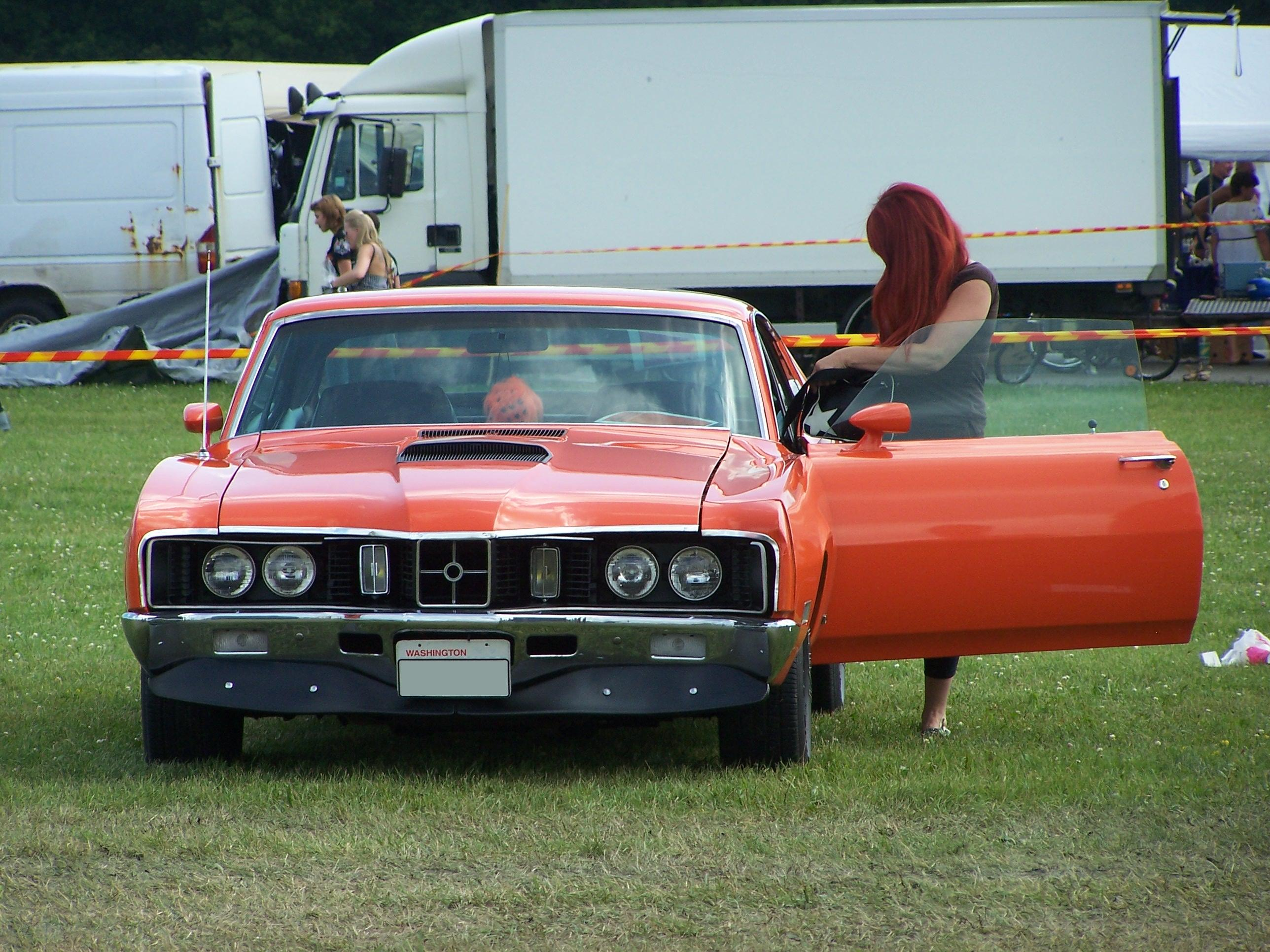 1970 Mercury Cyclone Spoiler at Power Big Meet 2009, Västerås, Sweden